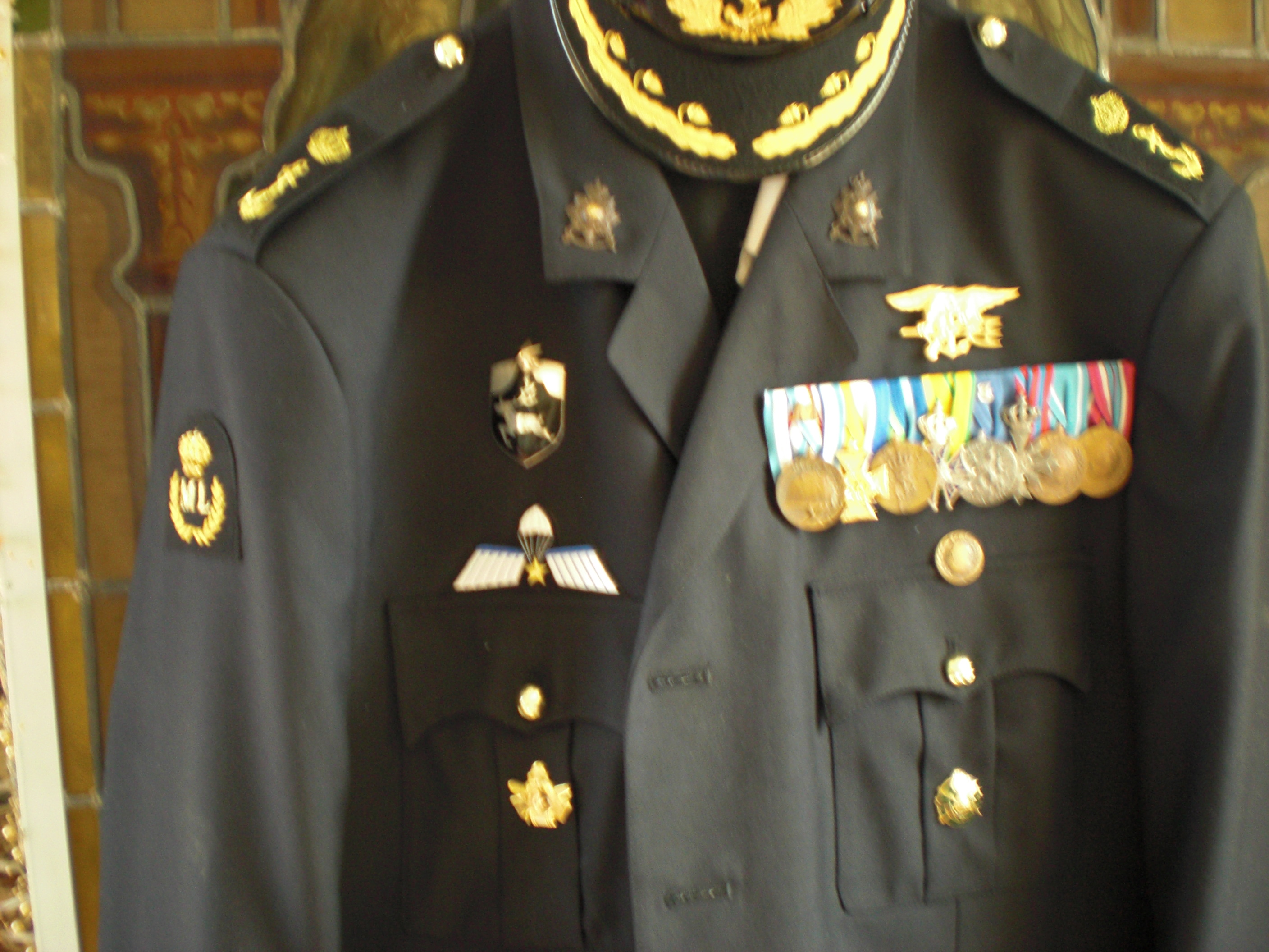 Klaas Jol - jacket with decorations